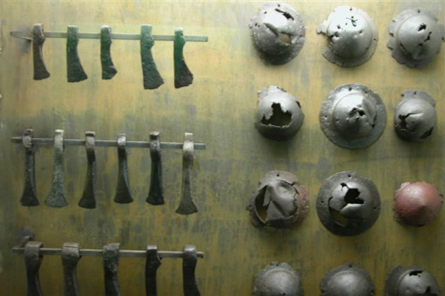 Iron axes and shield bosses from Nydam Mose, at Museum Schloss Gottorf, Schleswig, Germany